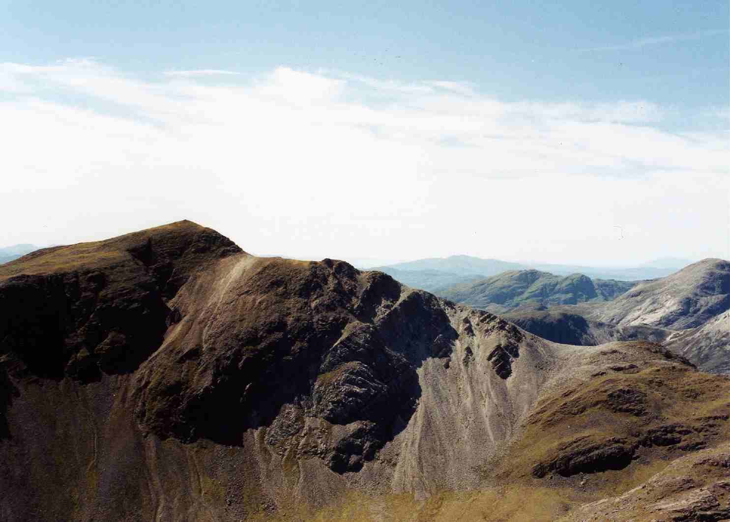 Personal photograph taken by Mick Knapton in June 1997